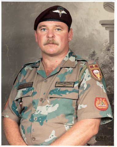 Warrant Officer 1 Cornelissen